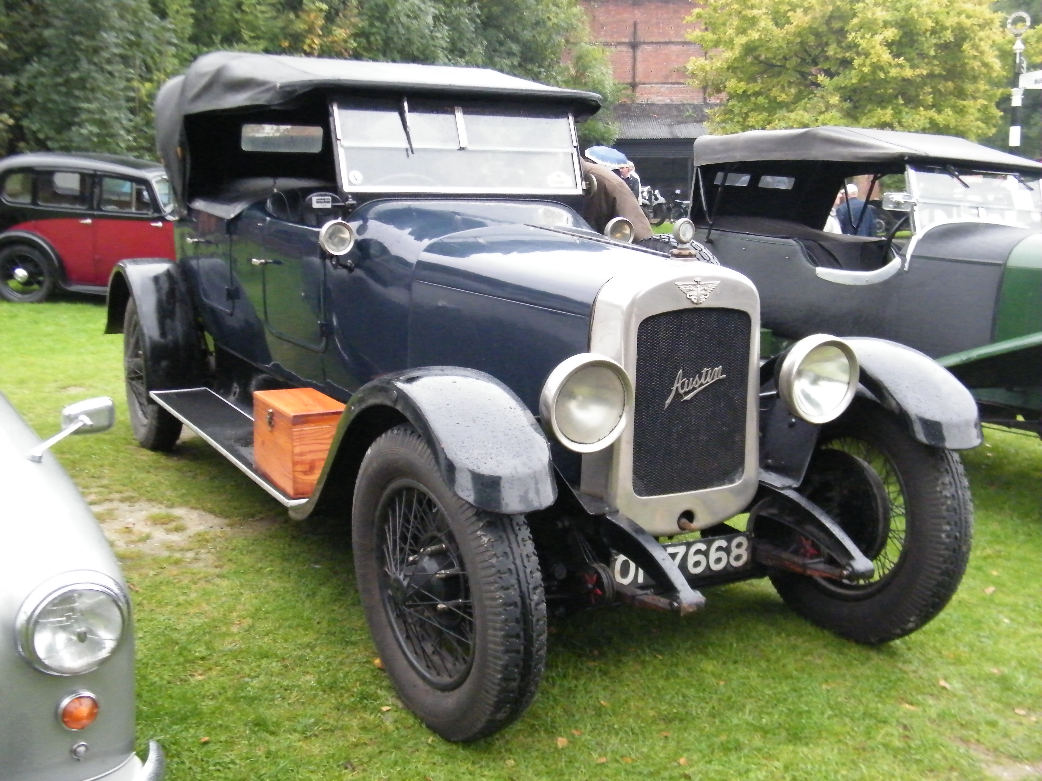 1927 Austin 20 Tourer (DVLA) first registered 10 May 1927, 3600 cc Amberley Museum West Sussex 13 October 2013